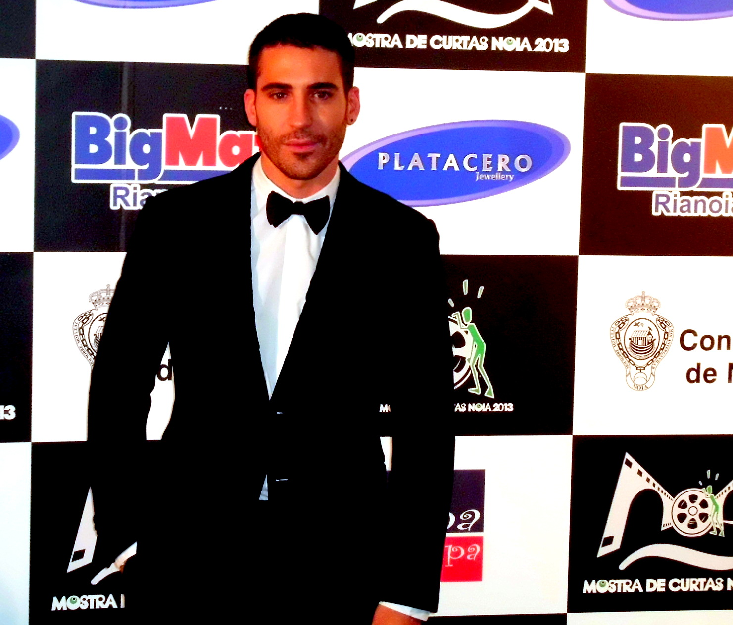 Miguel Ángel Silvestre in 2013